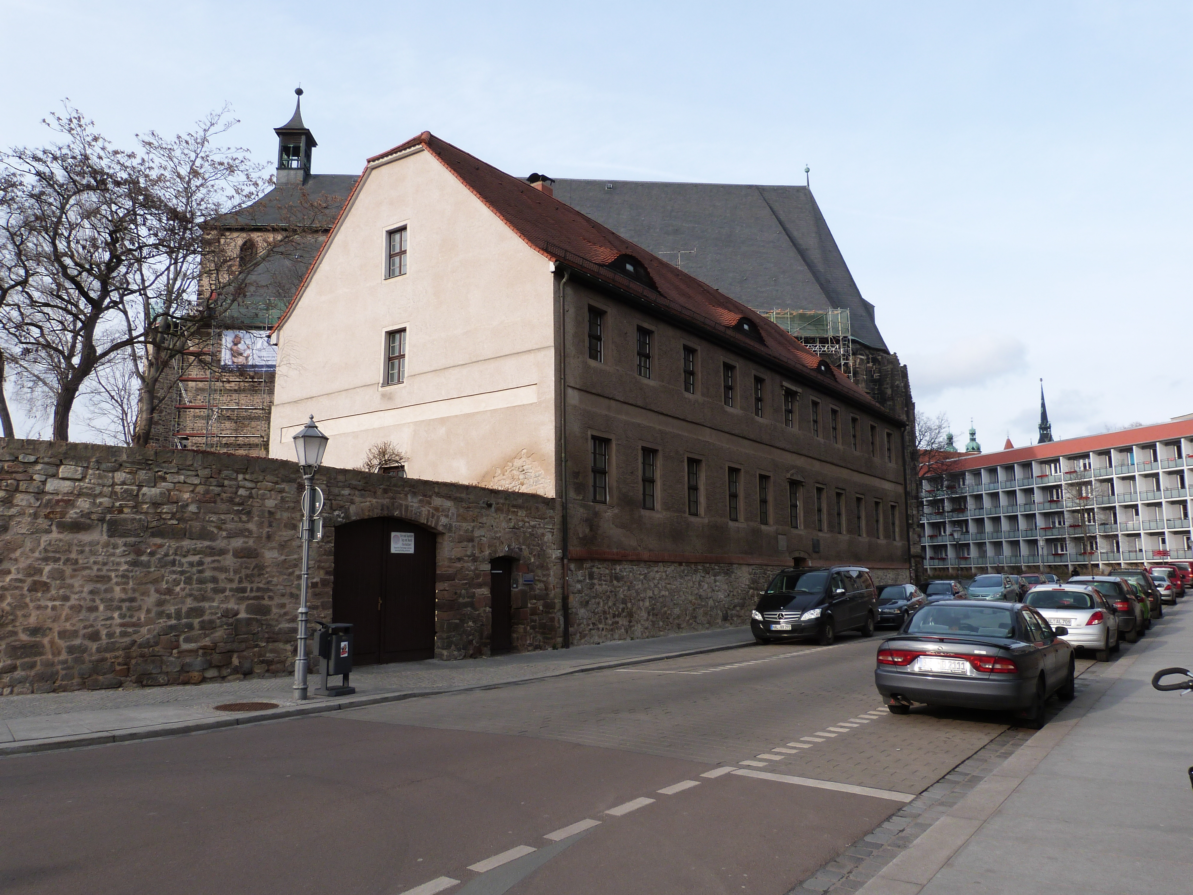 Street "An der Moritzkirche" No. 6 and 7 in Halle (Saale)